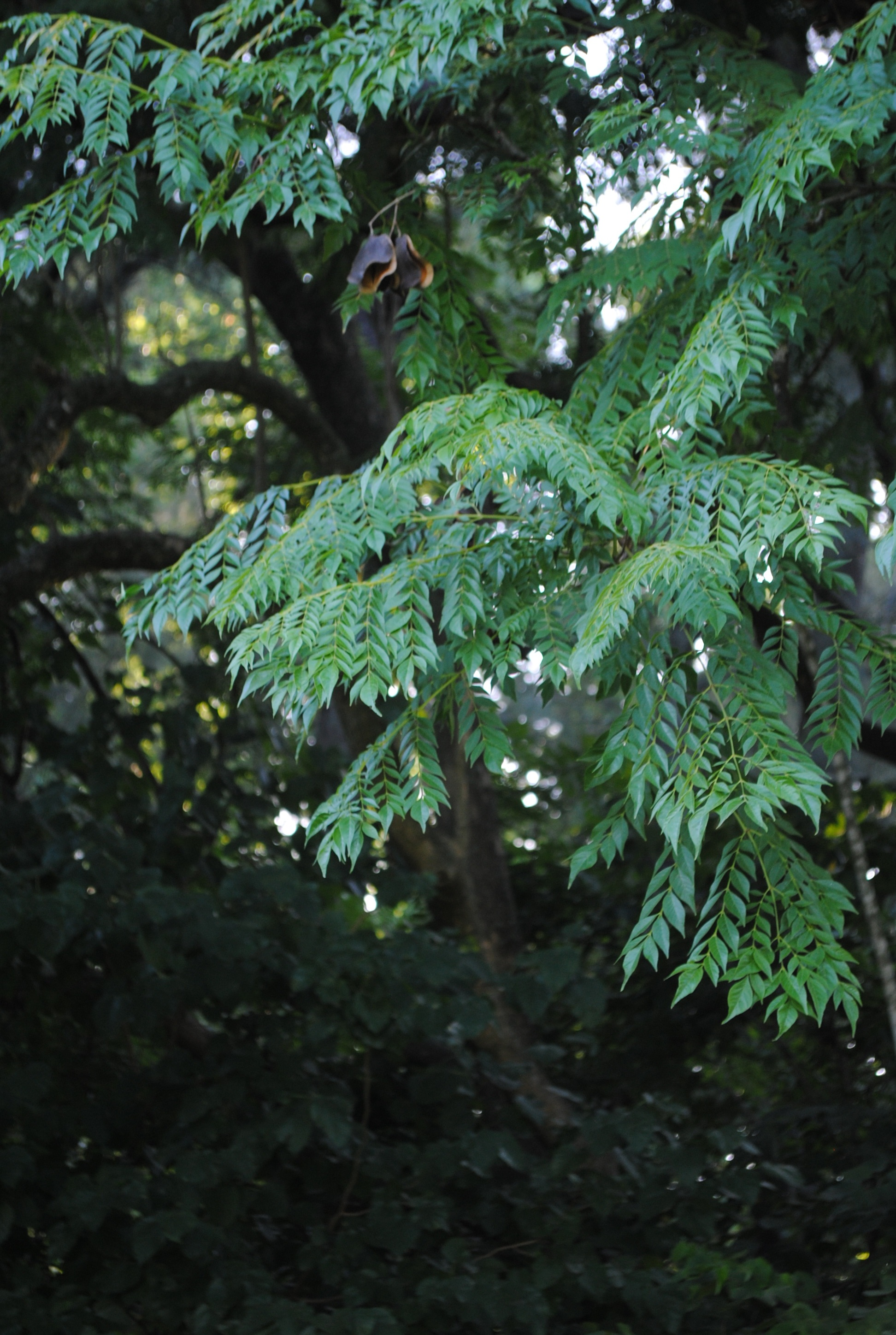 Jacaranda micrantha tree at Parque Villarino, Zavalla, Santa Fe province, Argentina